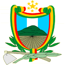 Coat of arms of this department of Guatemala Permission